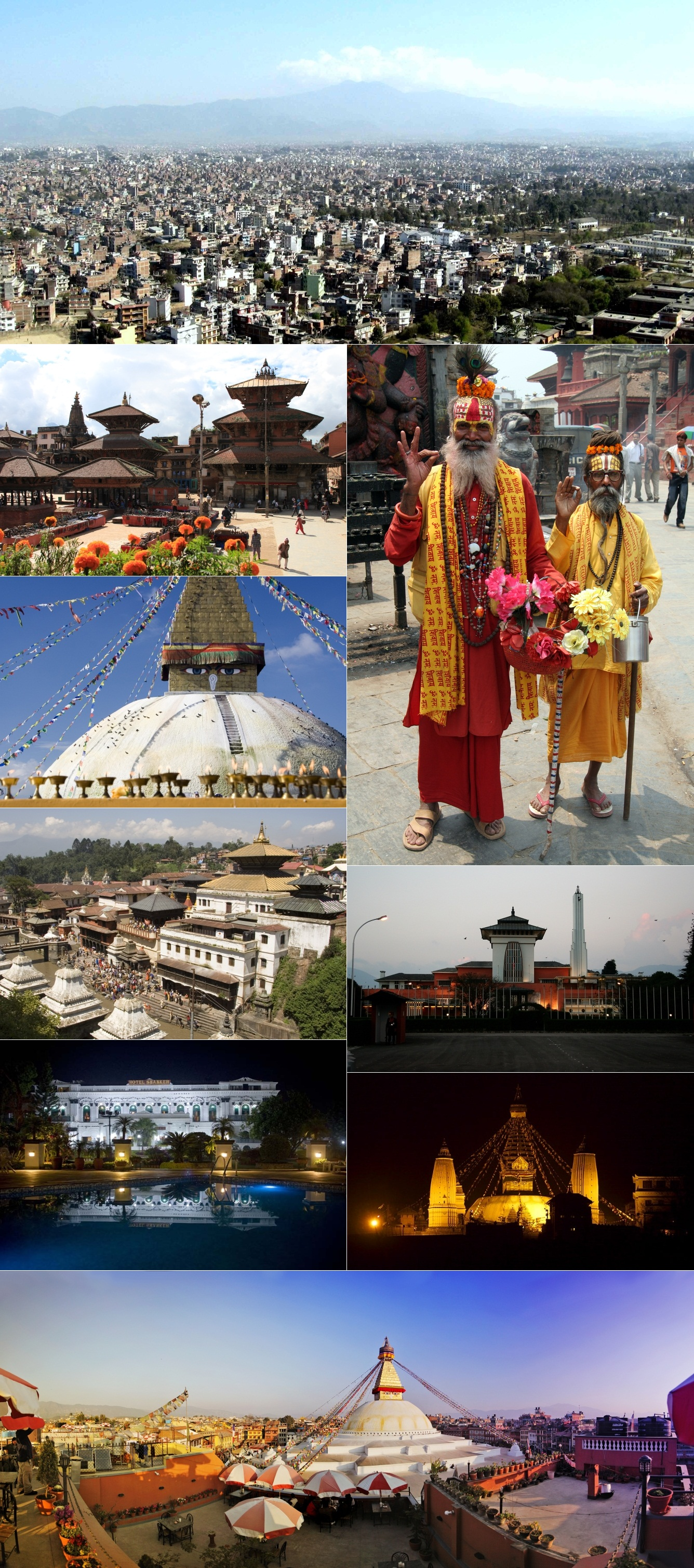 Collage of photos of Kathmandu, Nepal